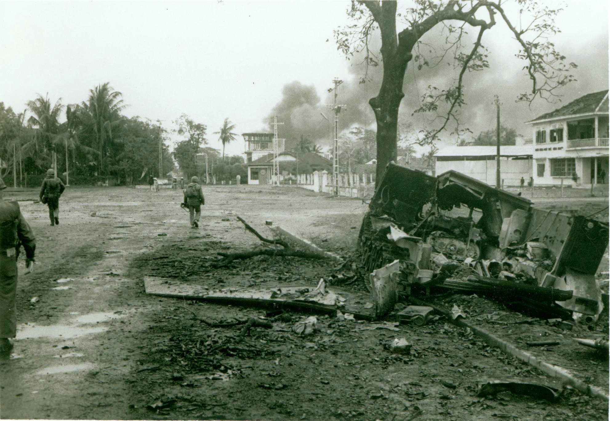 Marines move cautiously through the streets of Hue as the mop up the remaining pockets of enemy resistance near the end of the 25 day battle to wrest the ancient city from the North Vietnamese and Viet Cong during last year’s Tet fighting (official USMC photo by Captain T. Cummins). From the Jonathan Abel Collection (COLL/3611), Marine Corps Archives & Special Collections. OFFICIAL USMC PHOTOGRAPH